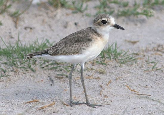 Juvenile Kittlitz's Plover (Charadrius pecuarius), 26 December 2005, Barberspan, South Africa